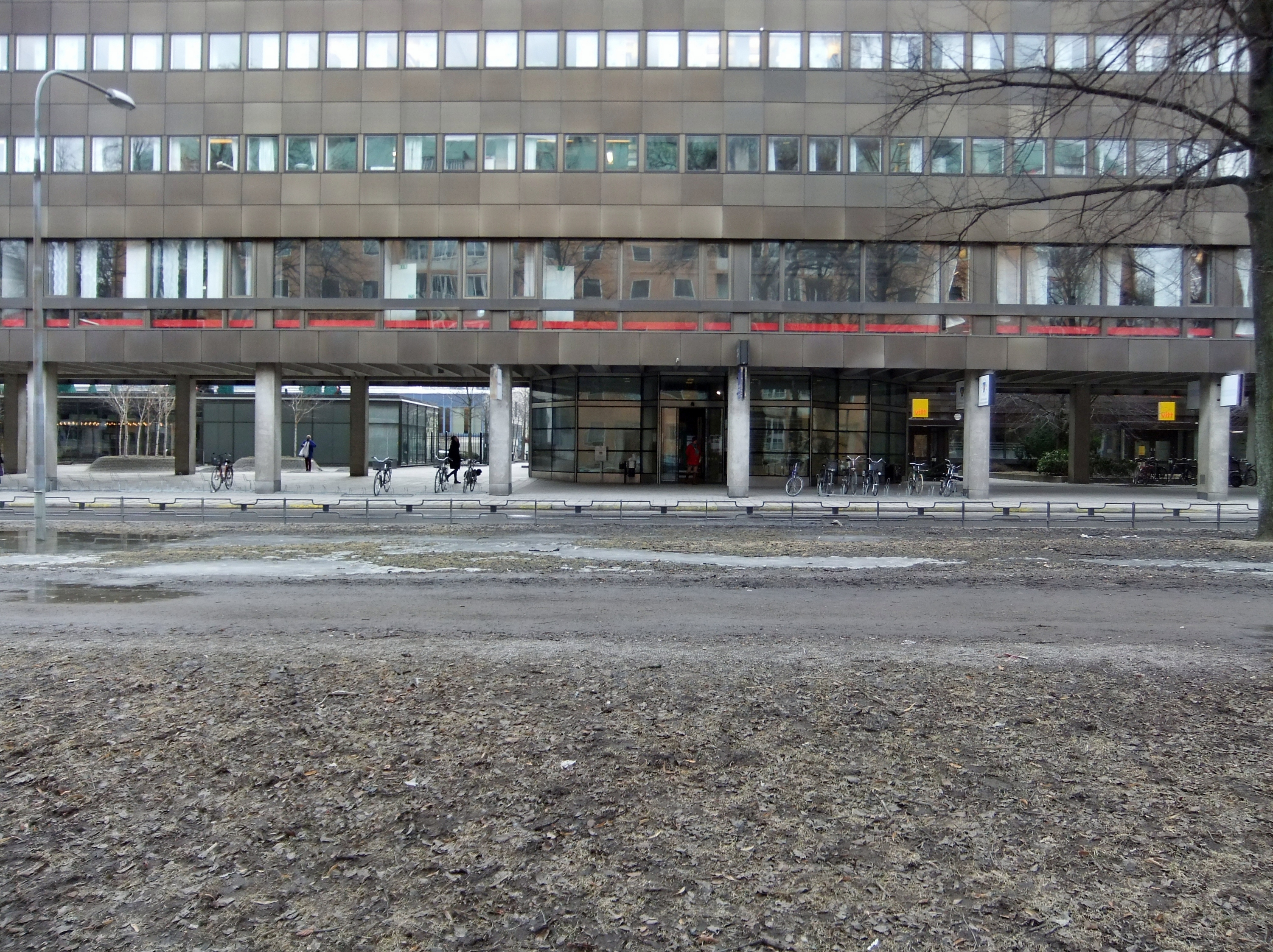 Department of Journalism, Media and Communication at Stockholm University